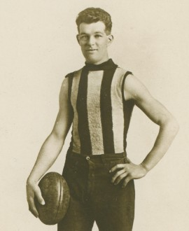 Photograph of Laurie Murphy from 1923-1924